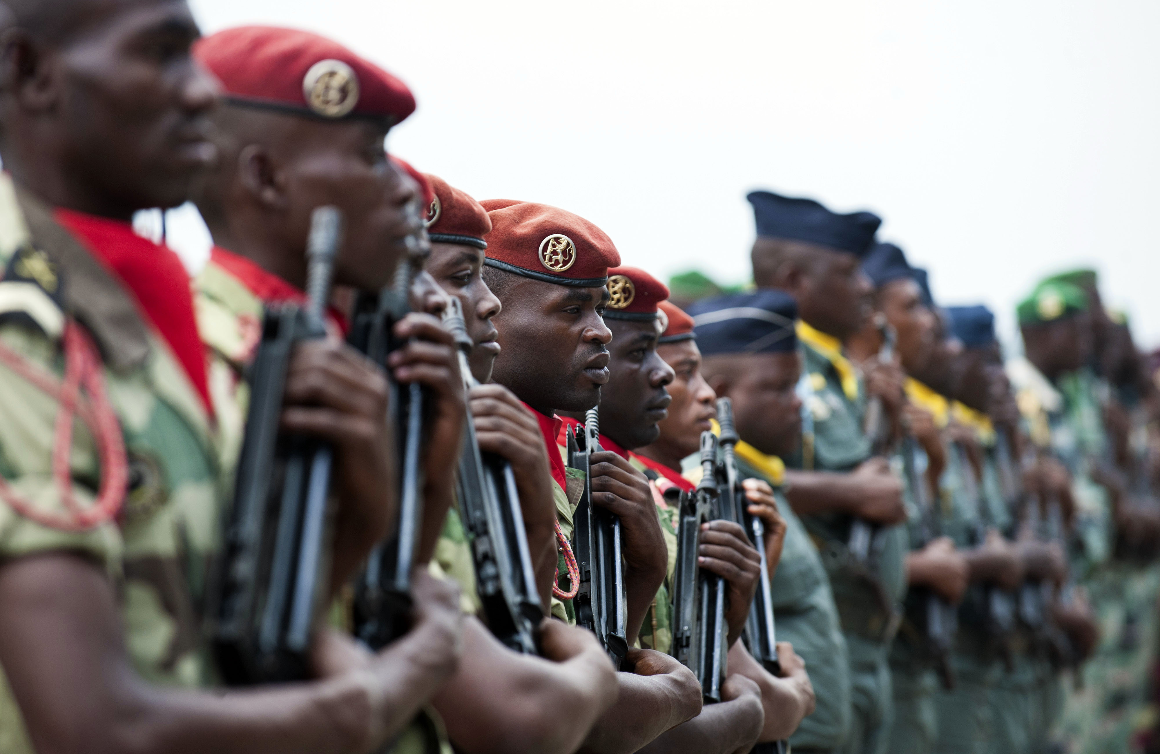 Military members from the Gabonese Armed Forces stand in formation during the opening day ceremony for this year’s Central Accord Exercise in Libreville, Gabon on June 13. U.S. Army Africa’s exercise Central Accord 2016 is an annual, combined, joint military exercise that brings together partner nations to practice and demonstrate proficiency in conducting peacekeeping operations. (U.S. Army Africa photo by Tech. Sgt. Brian Kimball)